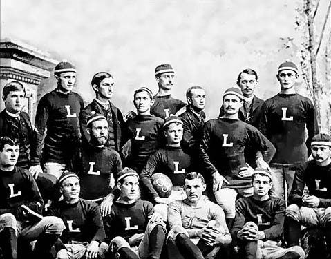 Group photograph of one of the first Lafayette football teams.